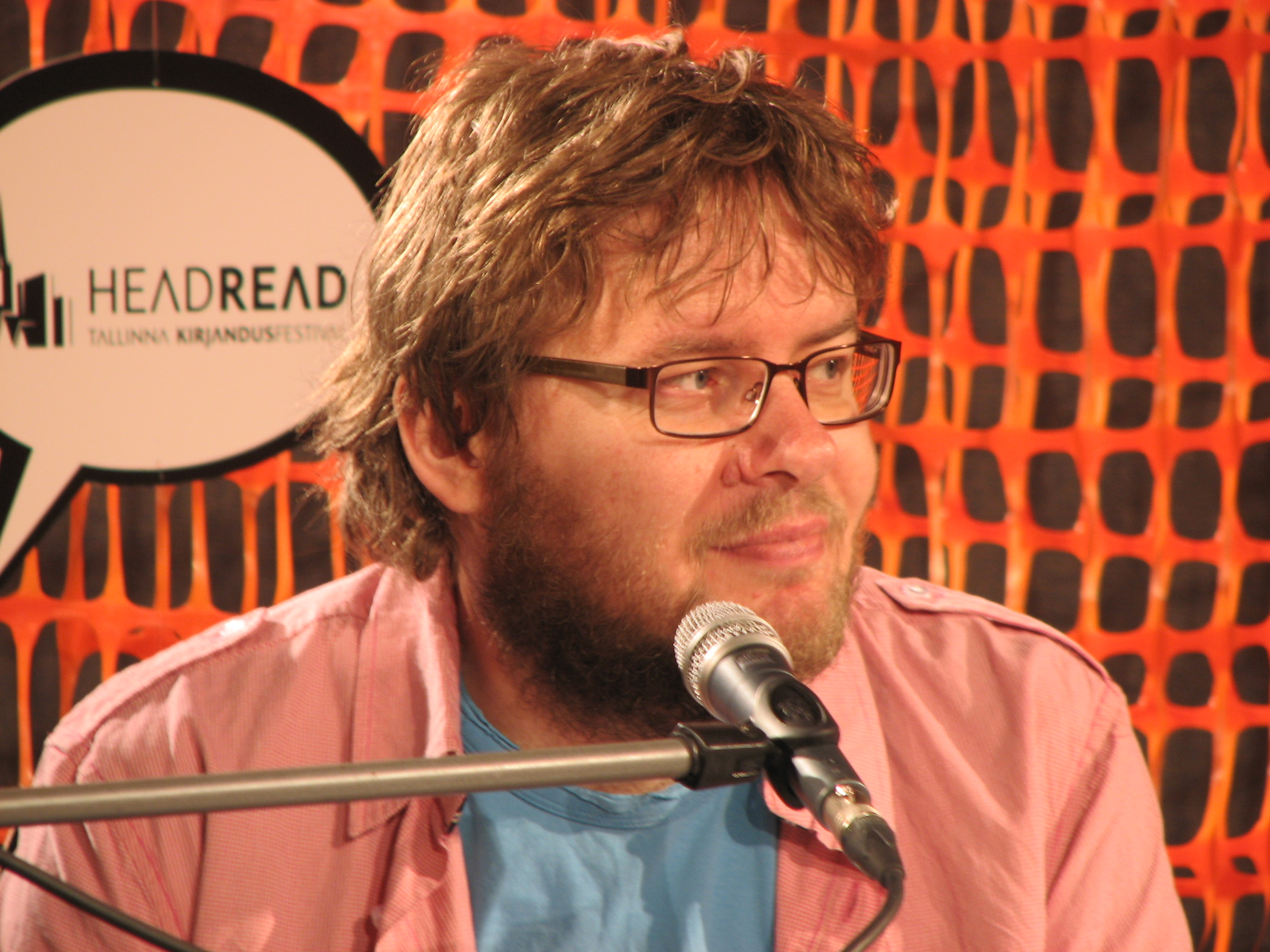 Jan Kaus performing in literature festival HeadRead